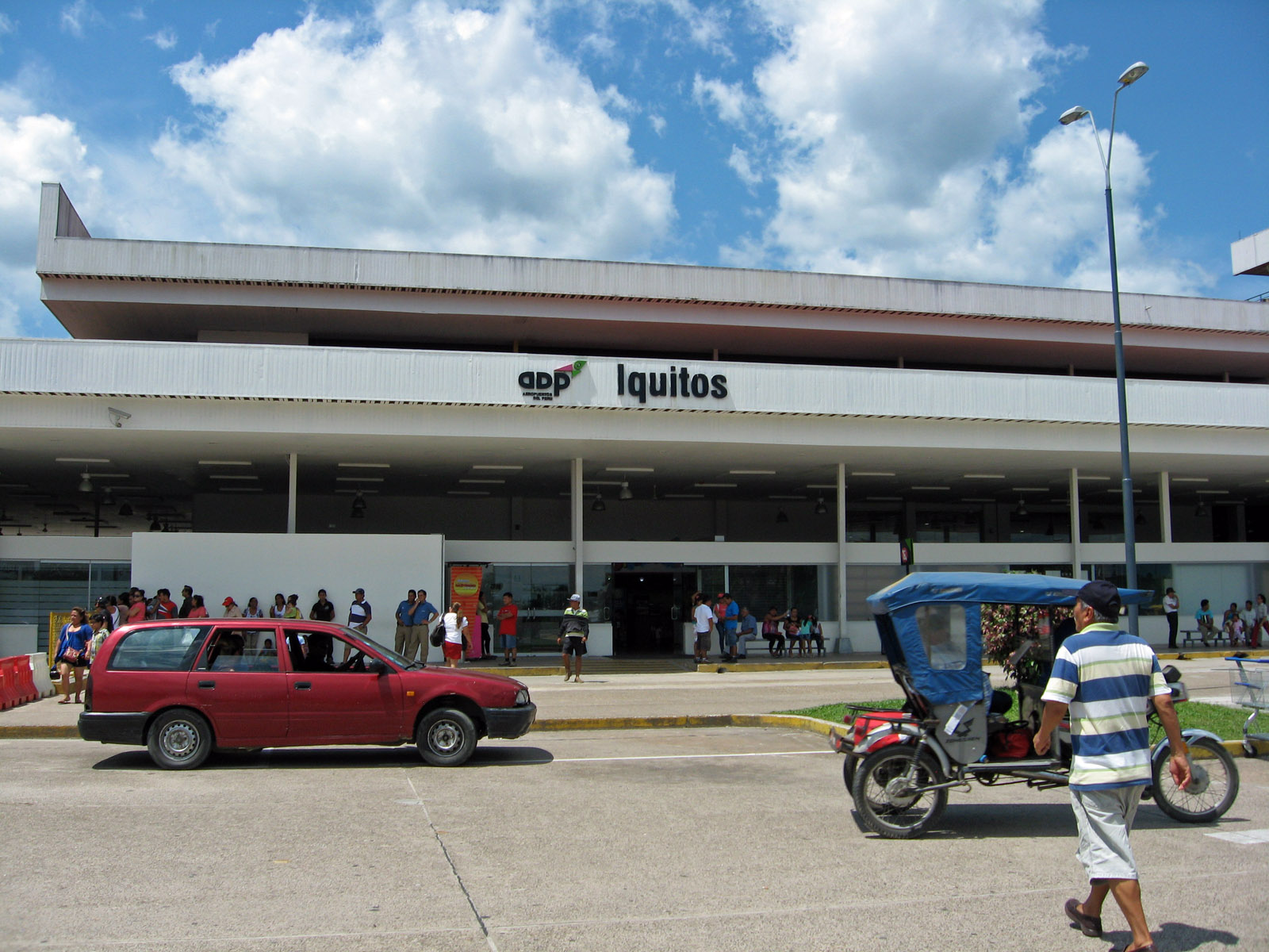 Arriving in Iquitos - first drive from the airport